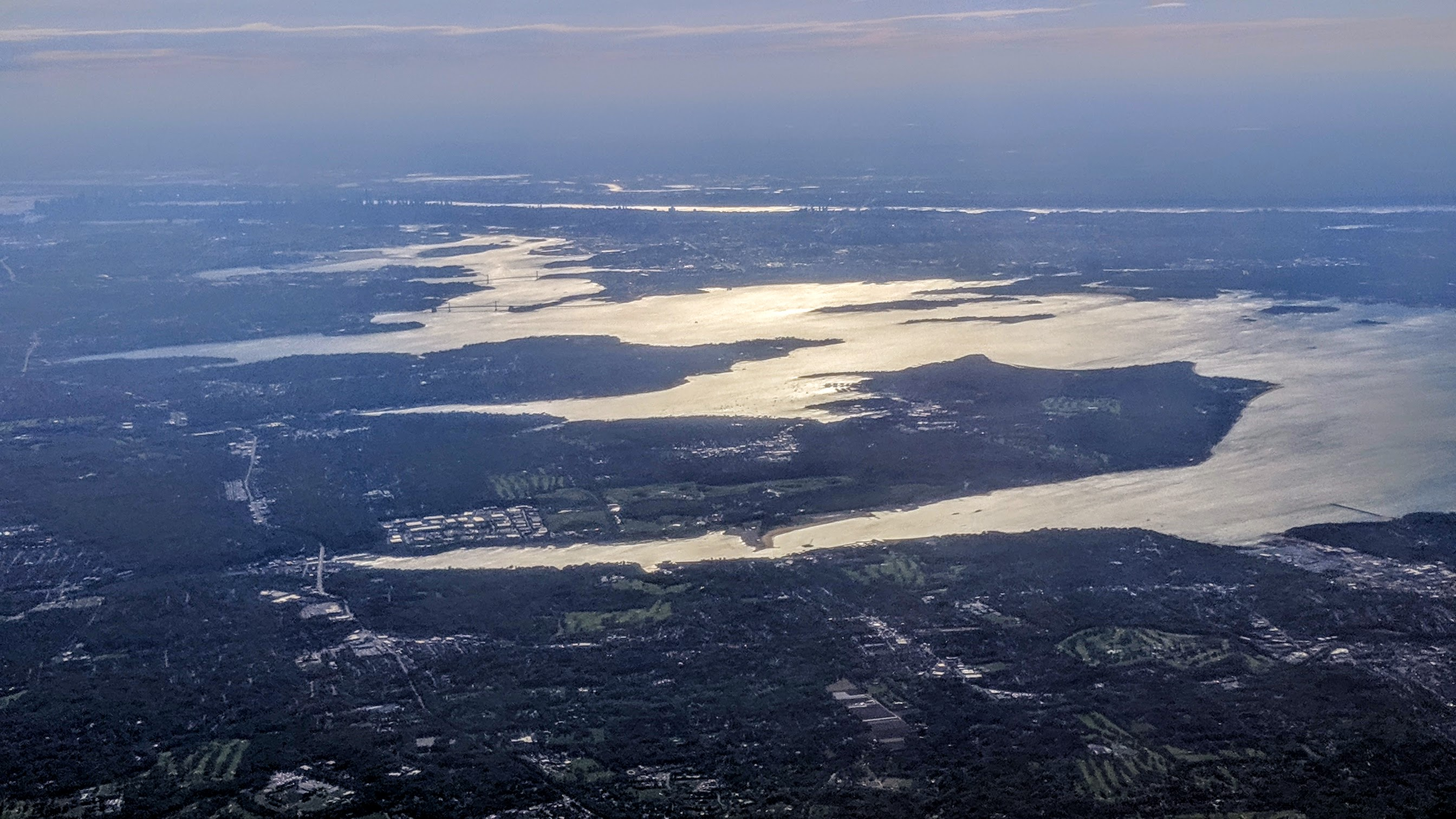 Hempstead, Manhasset, and Little Neck bays, aerial view from the east